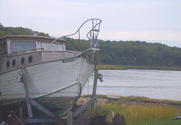 Assonet River, northeast of Fall River © 2004 Matthew Trump